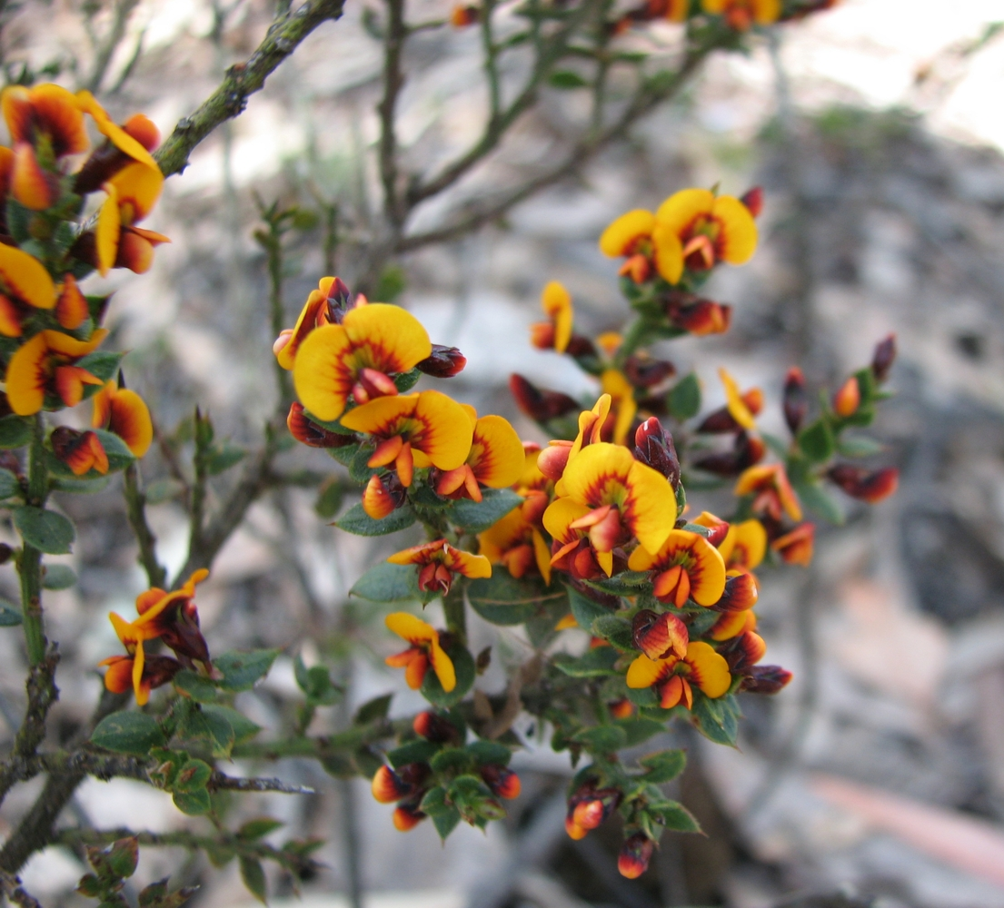 Daviesia ulicifolia, Fryers Ranges, Victoria, Australia